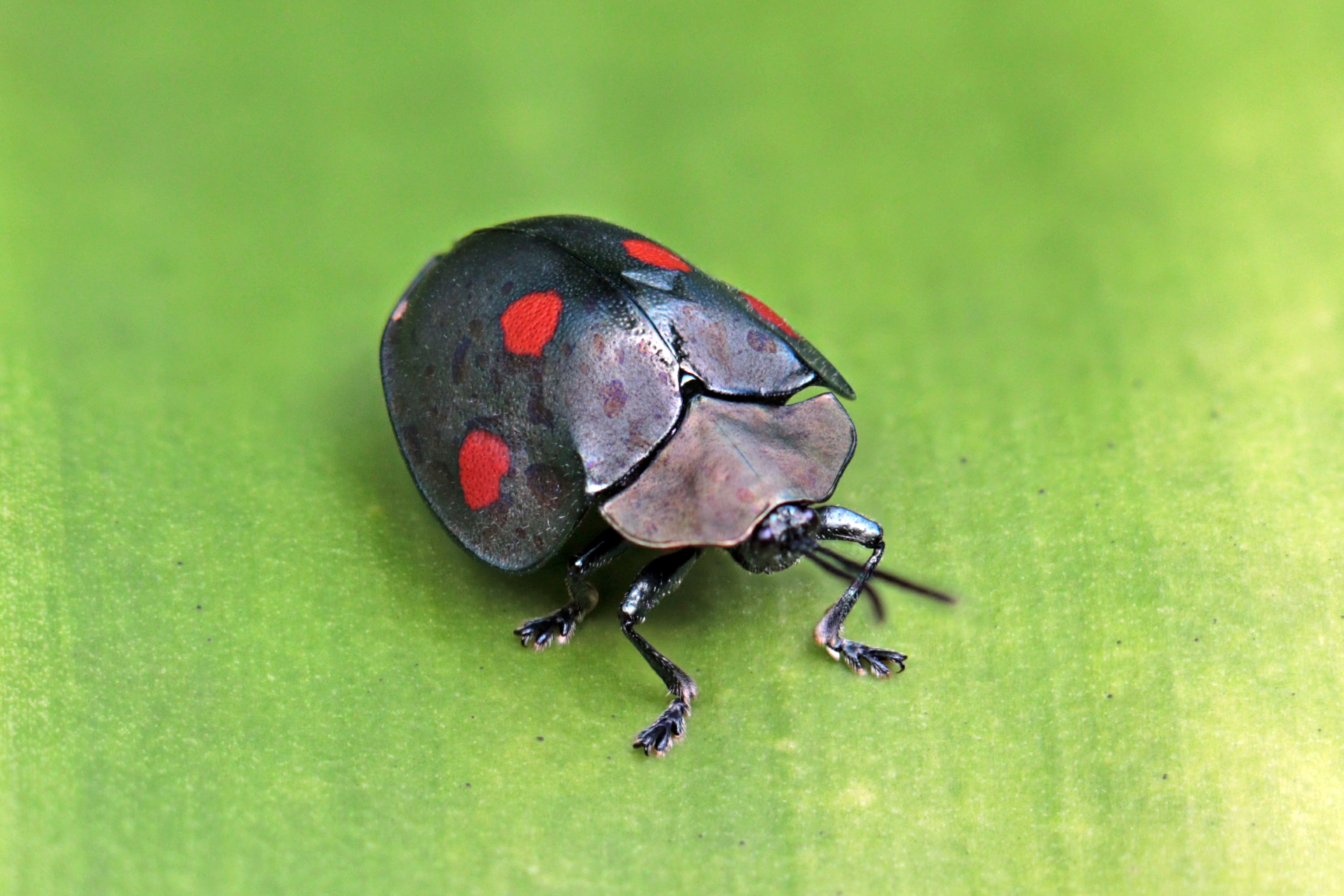 Tortoise beetle (Stolas lebasii), Alajuela, Costa Rica